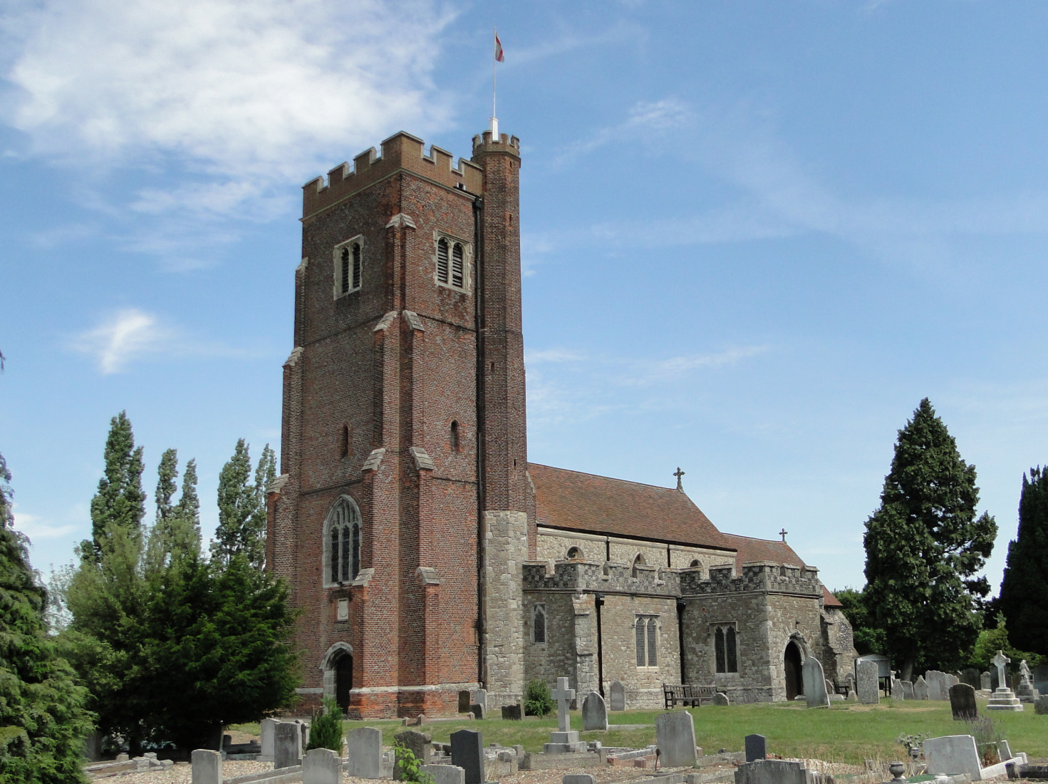 St.Andrews Church, Rochford, Essex